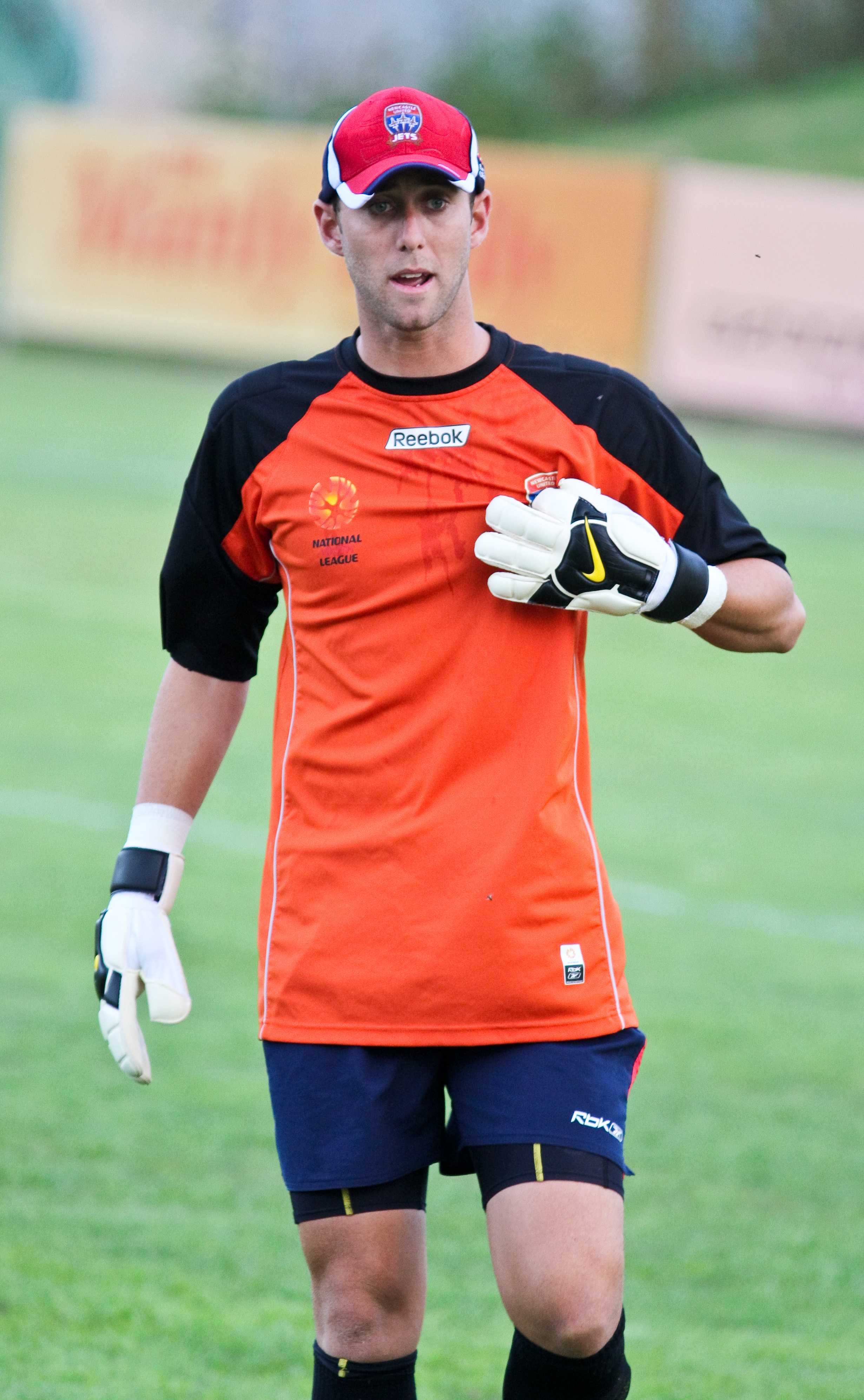 Justin Pasfield playing for the Newcastle United Jets Youth team against Sydney FC Youth.